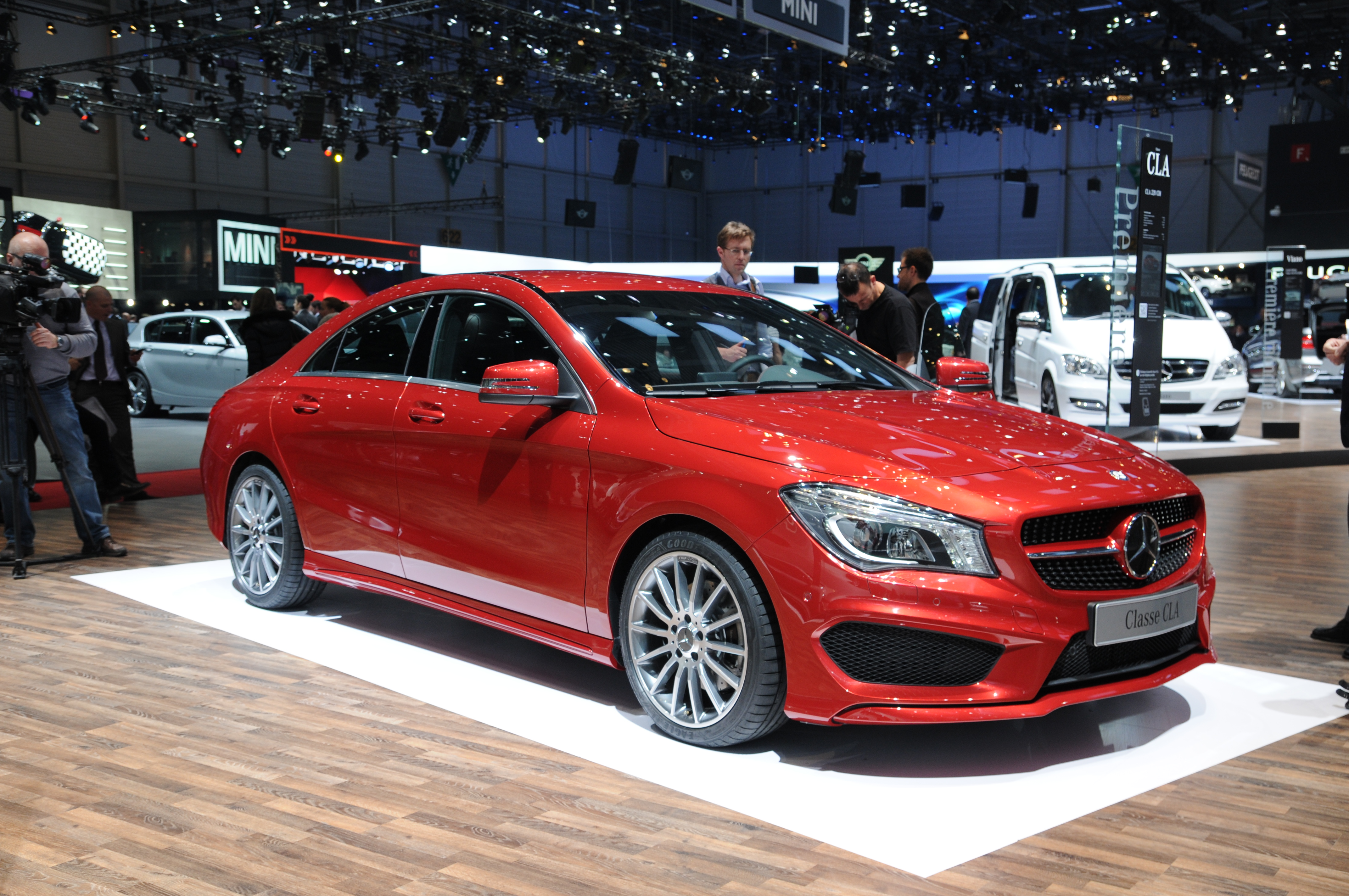 Geneva Motor Show 2013 (photos taken on the first press day)